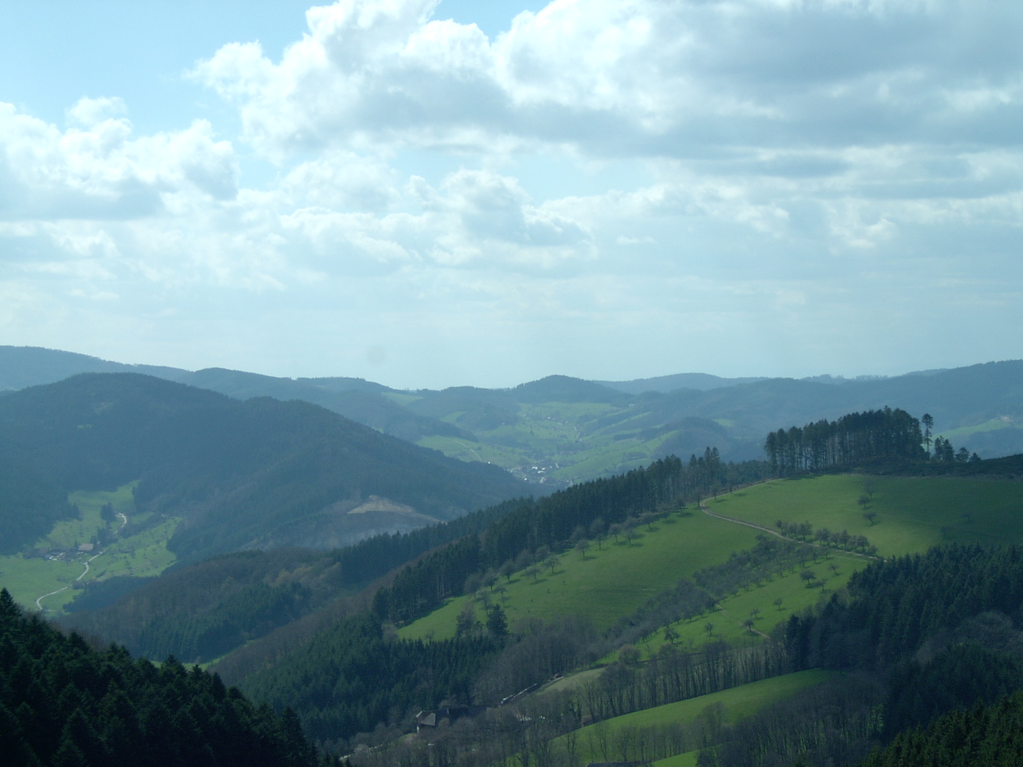 Black Forest in Southwestern Germany.